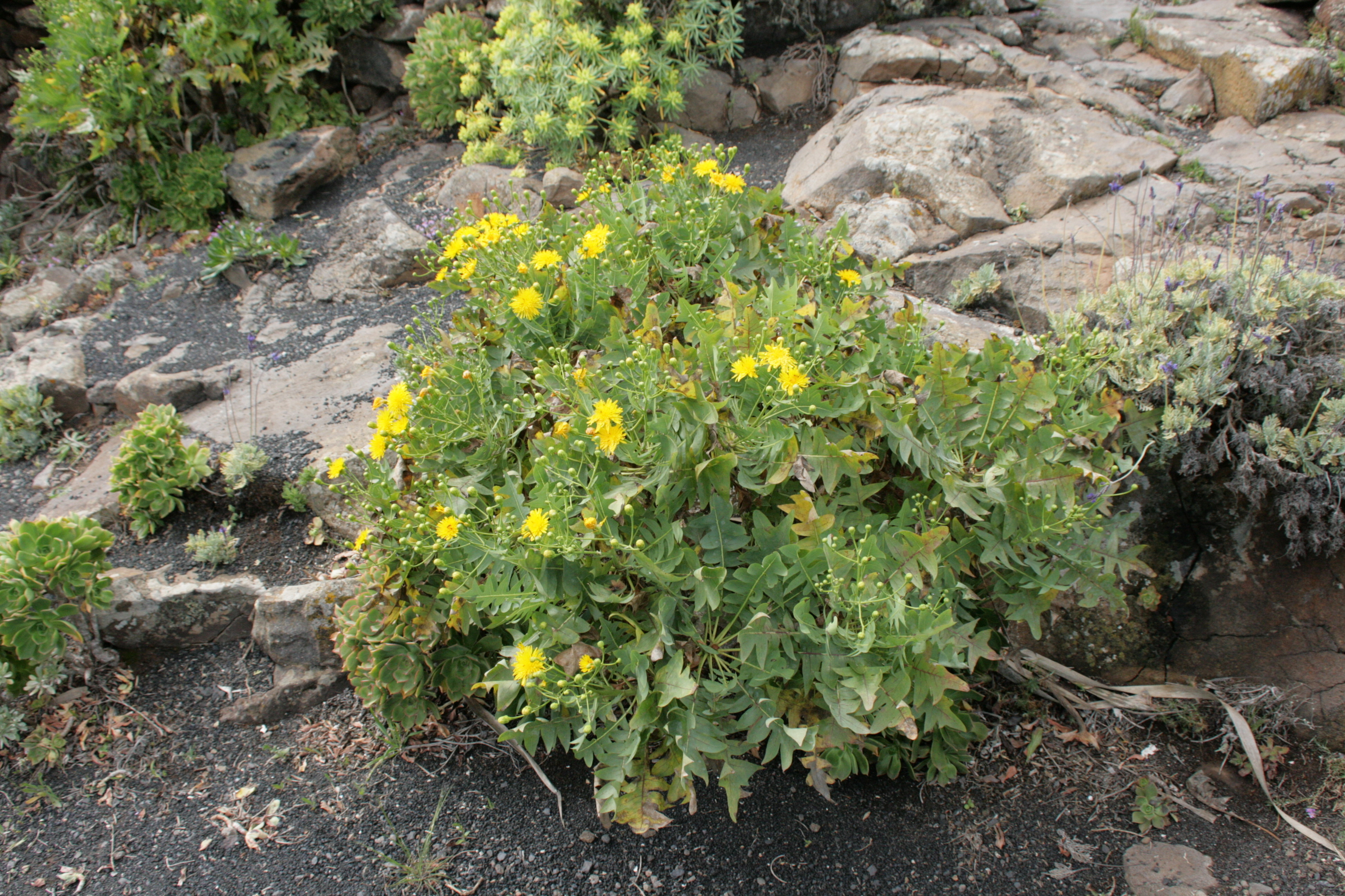 Sonchus pinnatifidus growing at Mirador de Haría, Calle Ramon Y Cajal (LZ-10) in Haría, Lanzarote, Canary Islands